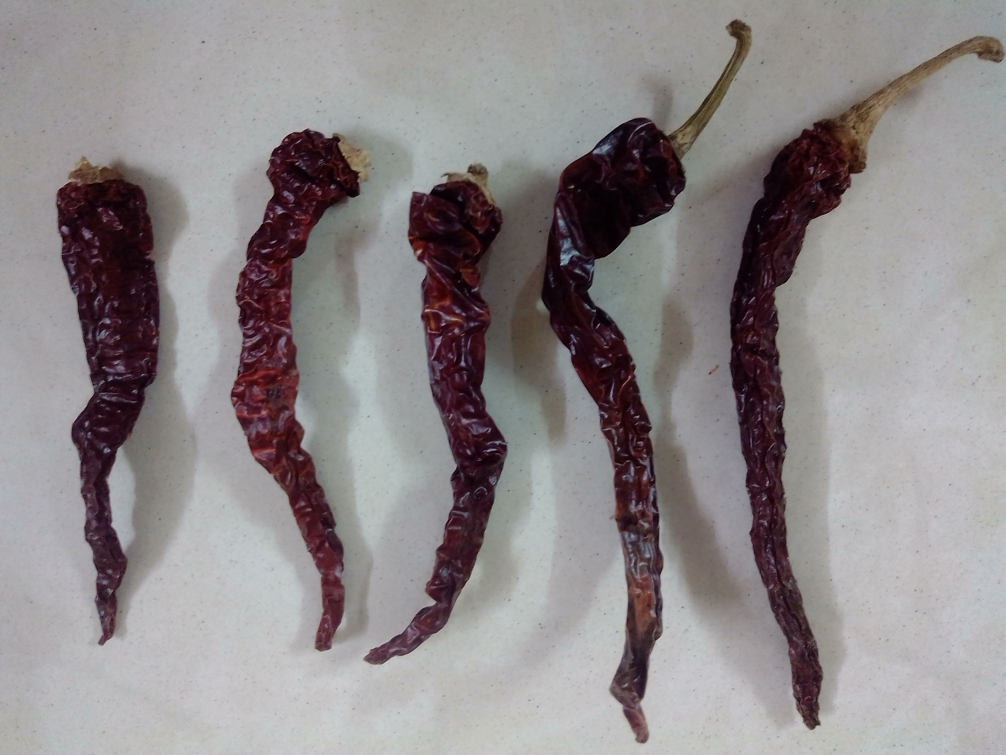 Dried Byadgi variety of chilli grown in Karnataka, India ( Bharat ).